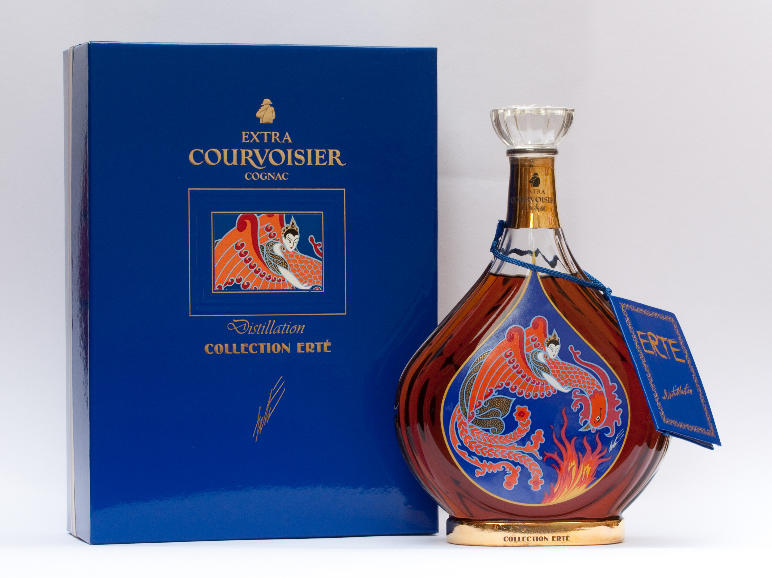 The third in the collection of Erté-designed limited edition Courvoisier decanters. The artwork on the decanter is titled Distillation. This instalment in the series was released in 1990.